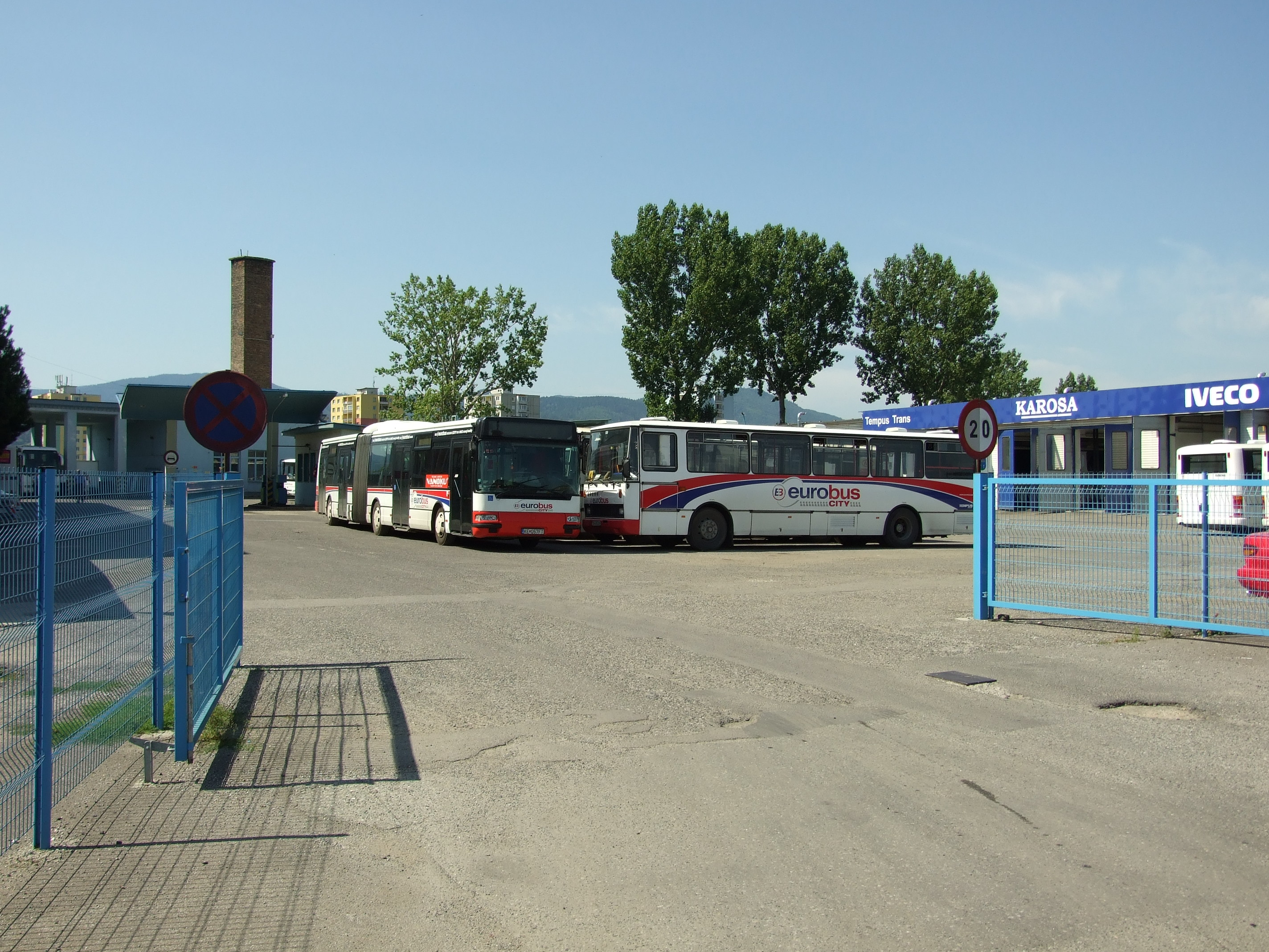 Bus service in Spišská Nová Ves, Košice Region, SK